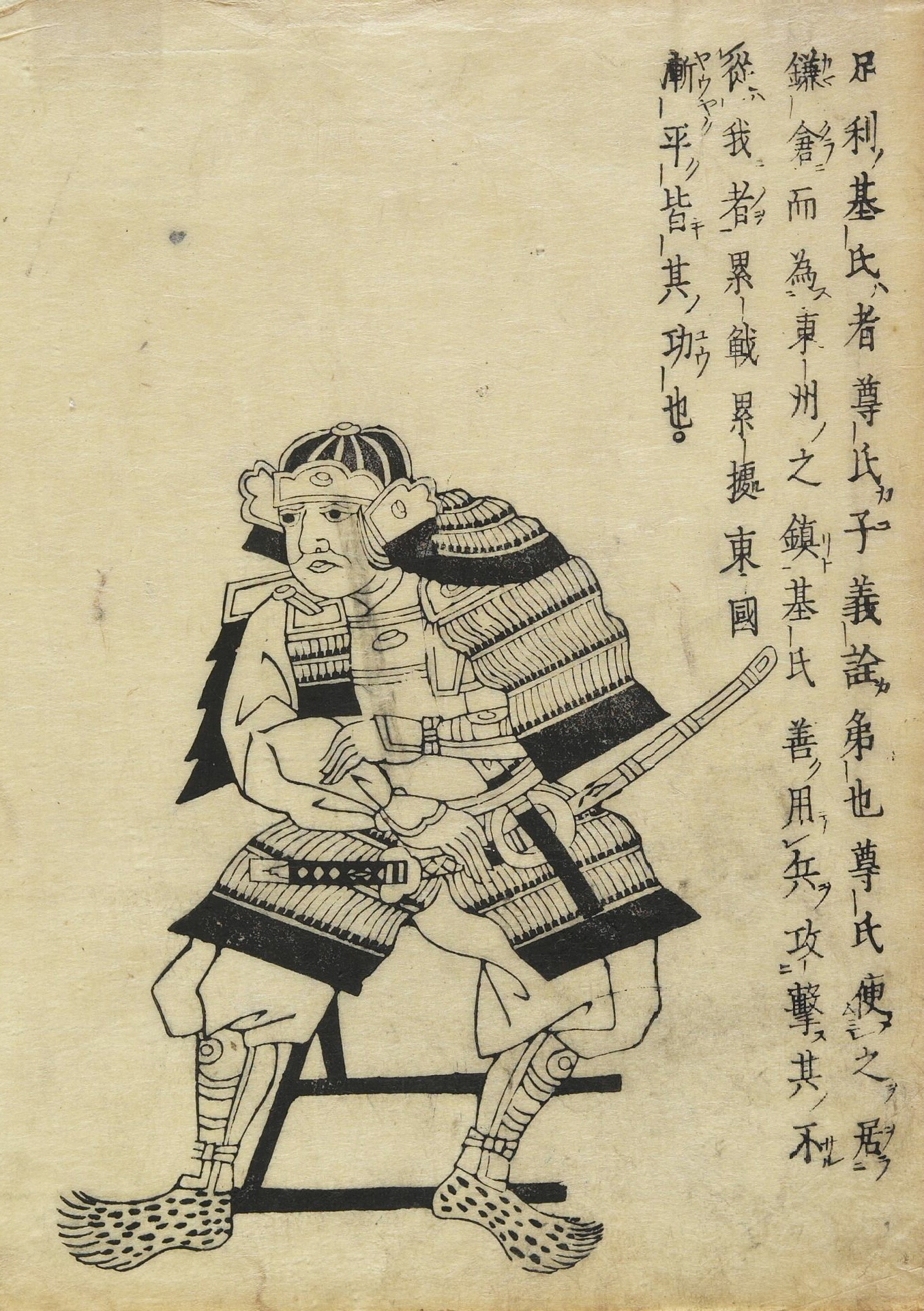 Portrait of Ashikaga Motouji